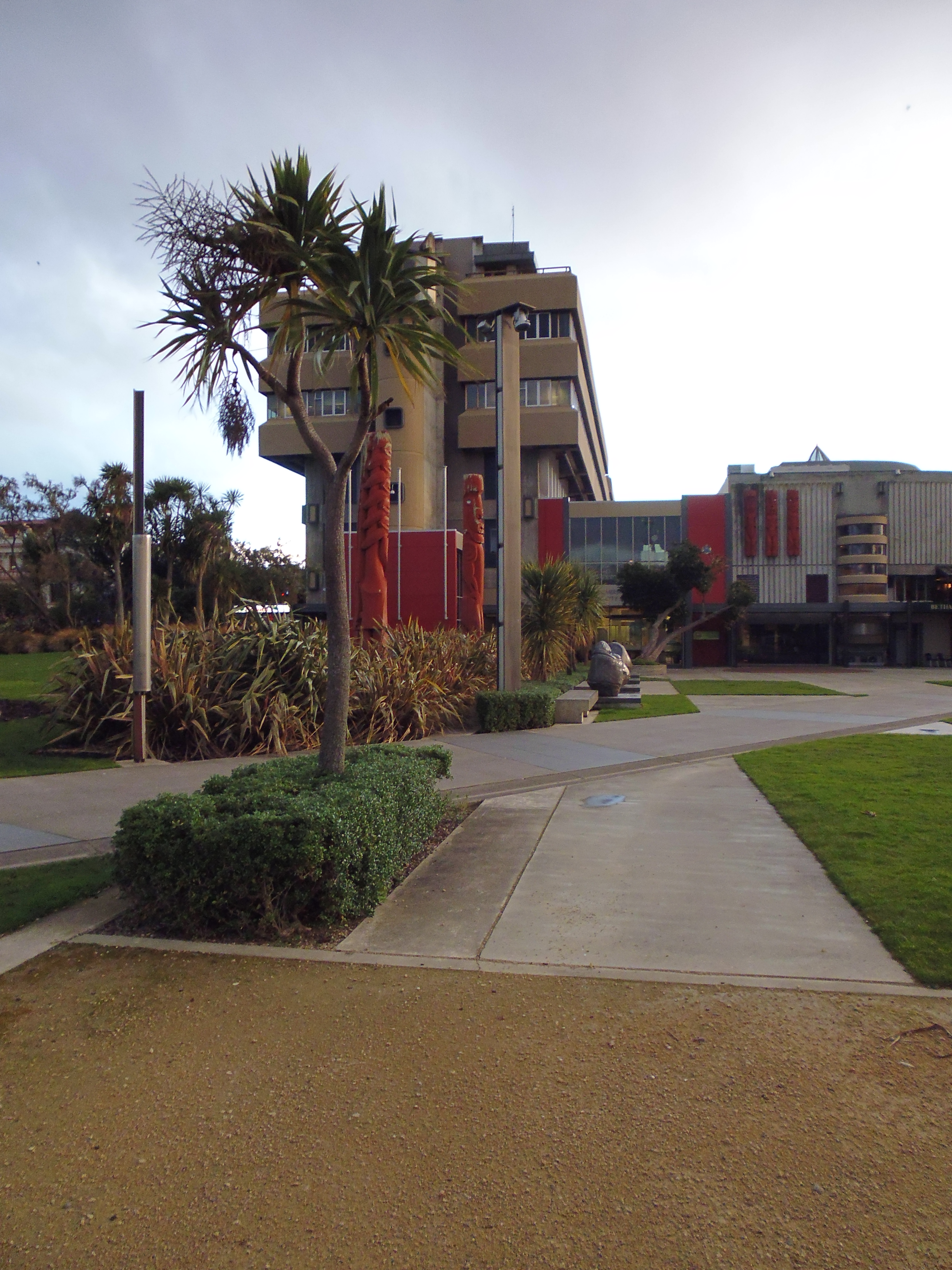 A view of the Palmerston North Civic Administration Building, the primary headquarters of the Palmerston North City Council.